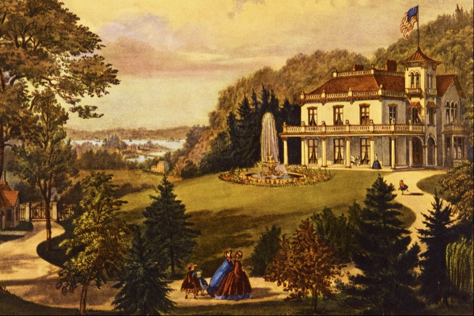 Life in the Country - Evening